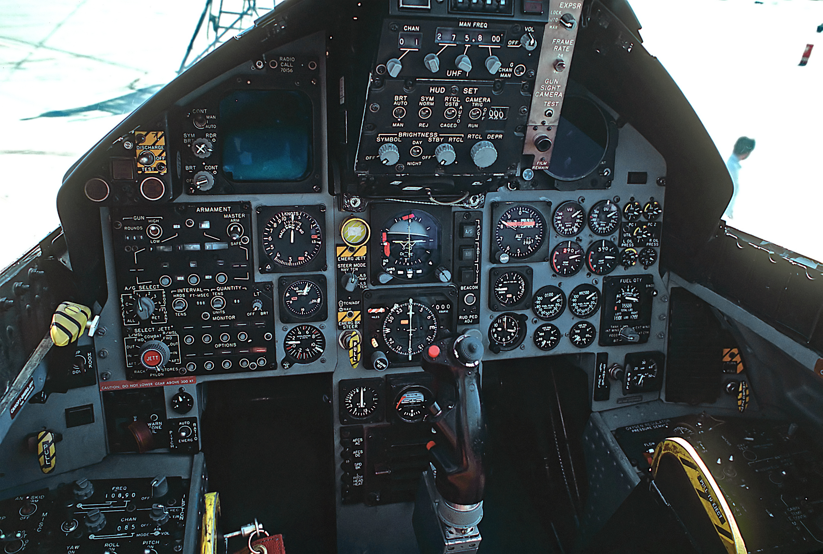 A close-up view of an F-15 Eagle aircraft instrument panel. Location: HOLLOMAN AIR FORCE BASE, NEW MEXICO (NM) UNITED STATES OF AMERICA (USA)